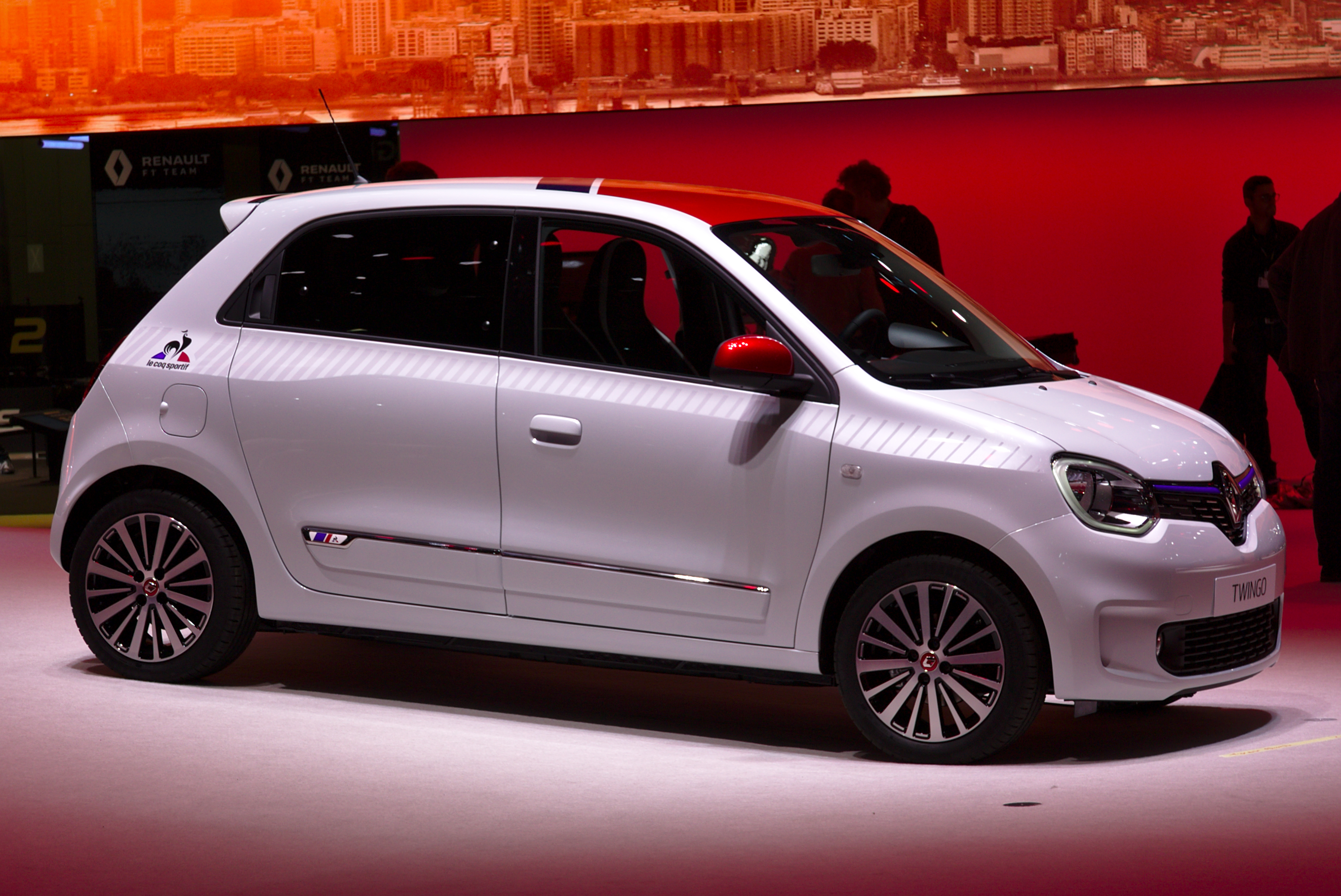 Renault Twingo at Geneva Motor Show 2019